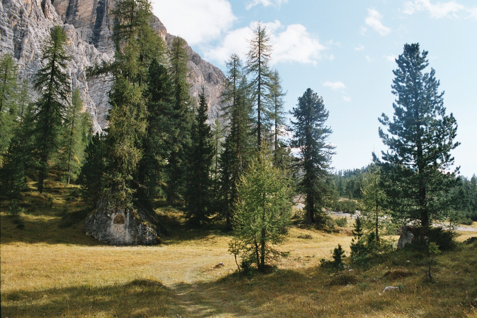 I took this picture South Tyrol, La Val, Nature Park Fanes-Sennes-Prags, below "Neuner" mountain, clearing with "Hubertus"-plate on rock. Trees are Larix decidua (light green), Pinus cembra (dark green, broad), and one Picea abies (slender dark green)